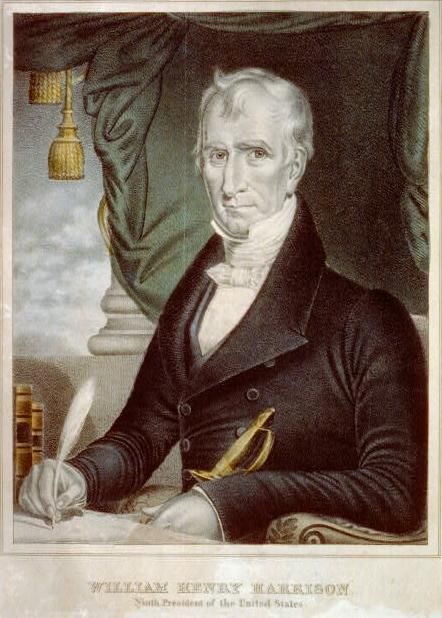 William Henry Harrison: ninth President of the United States.